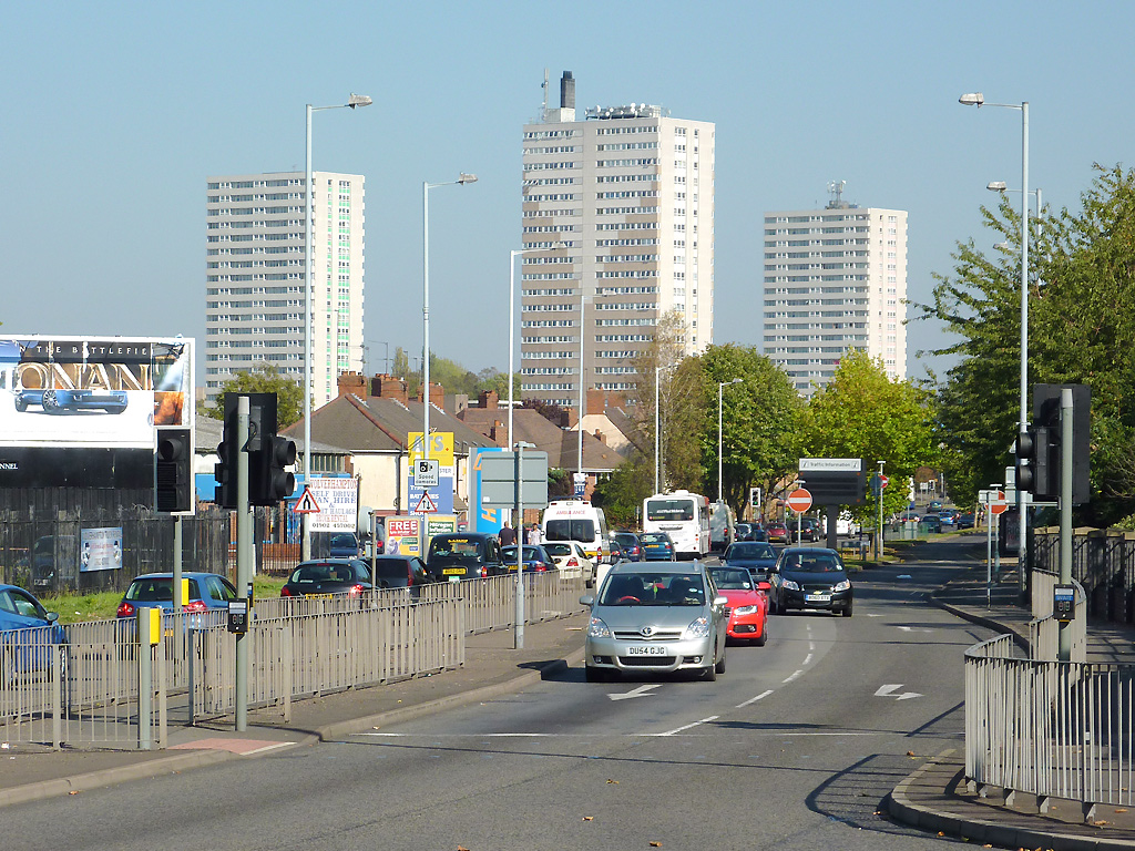 The image has been taken from the corner of Sun Street, looking roughly north-east along the A4124 towards Wednesfield. © Copyright Roger Kidd and licensed for reuse under this Creative Commons Licence